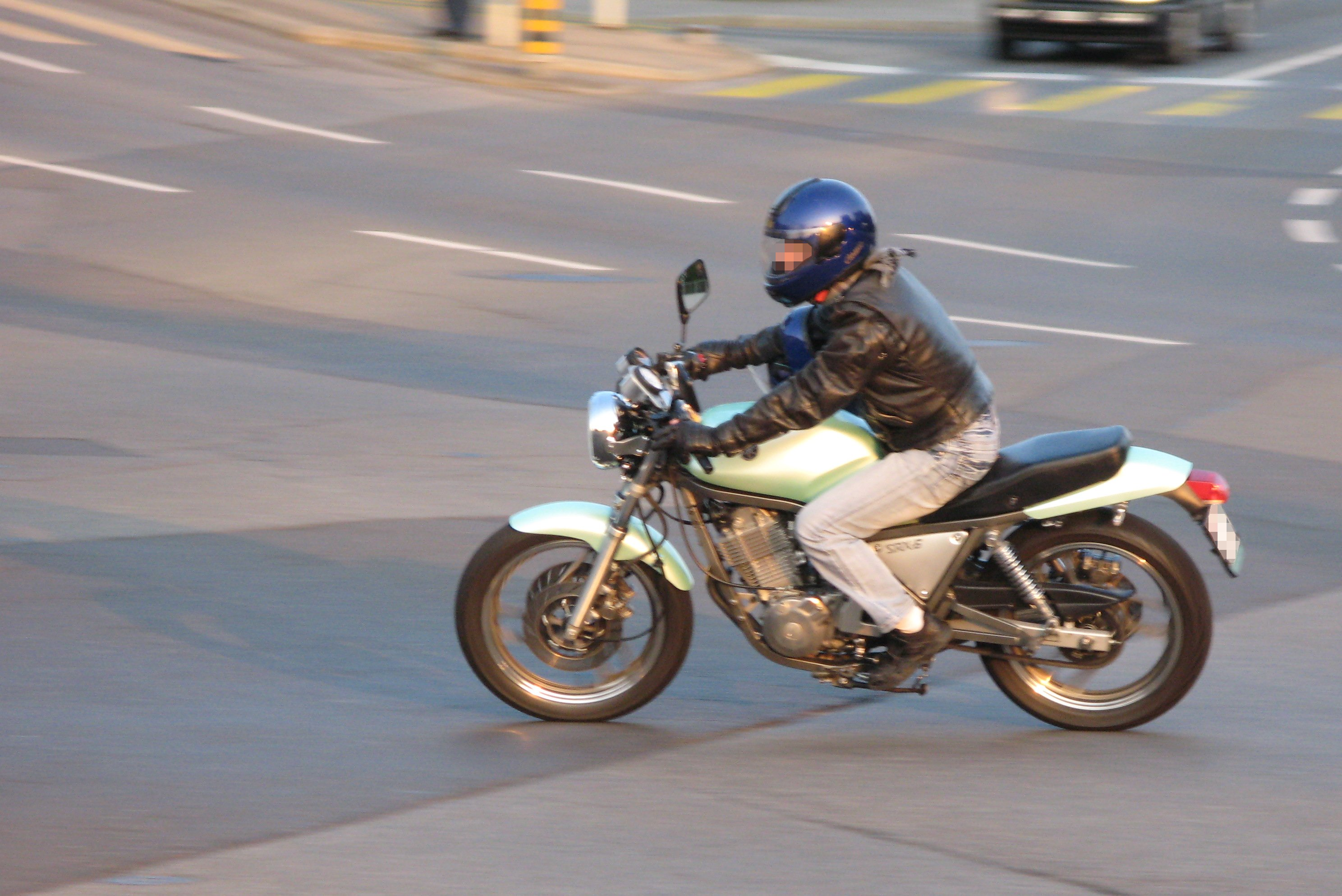 Yamaha SRX 6 motorcycle